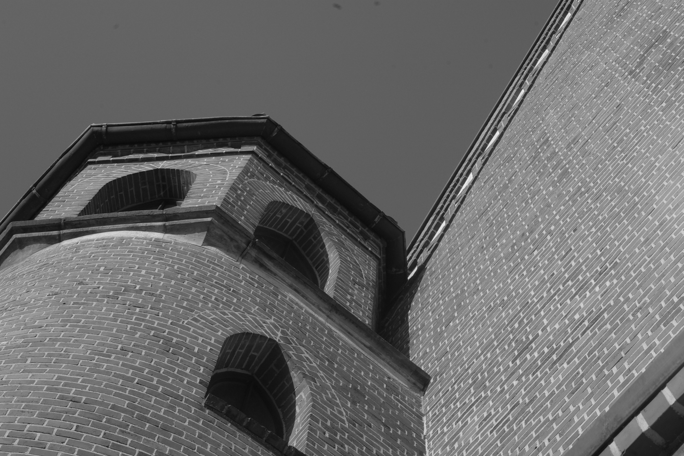 catholic church Wilhelmshaven Bremer Straße